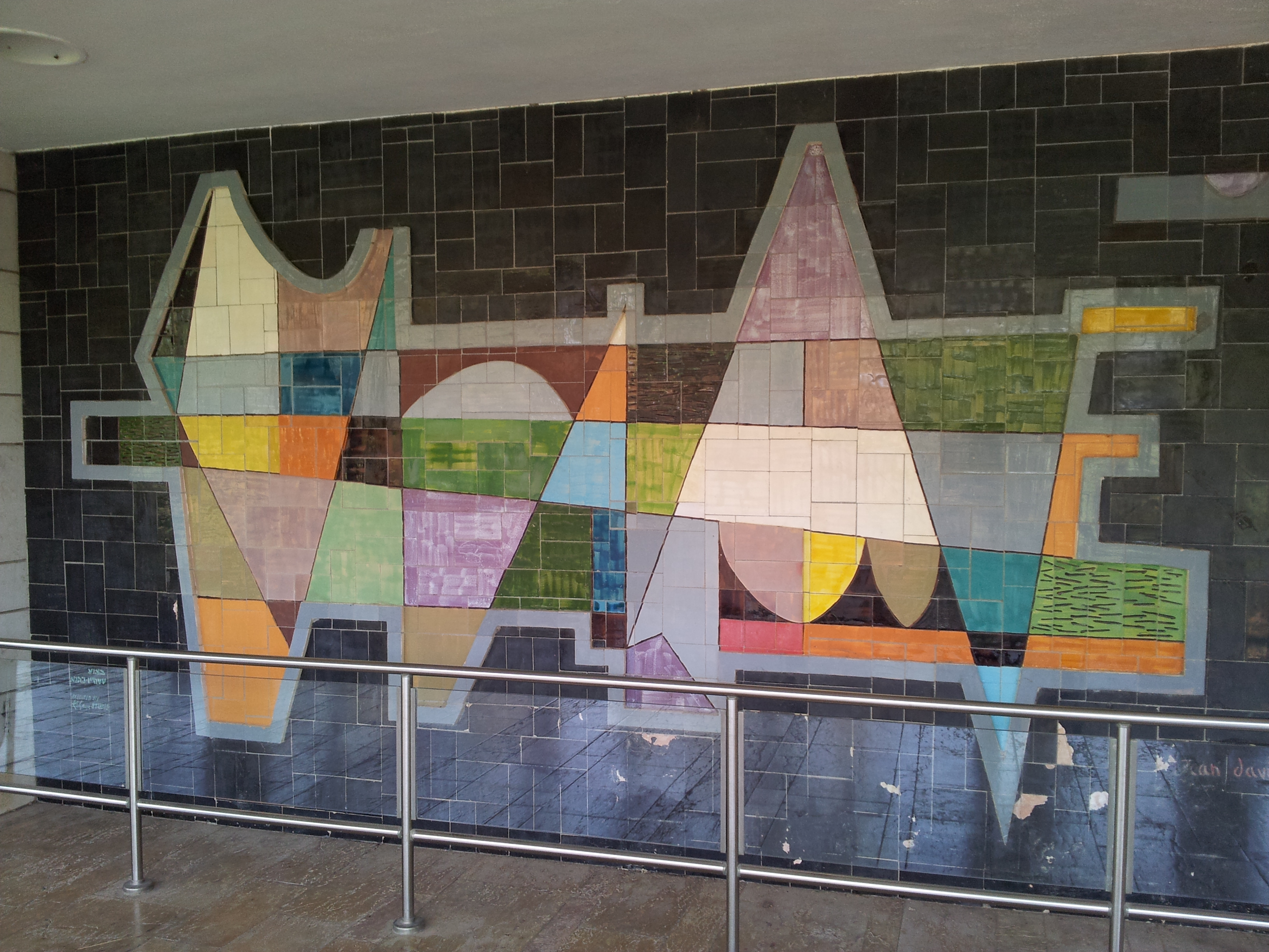 Jan David painting Hebrew university